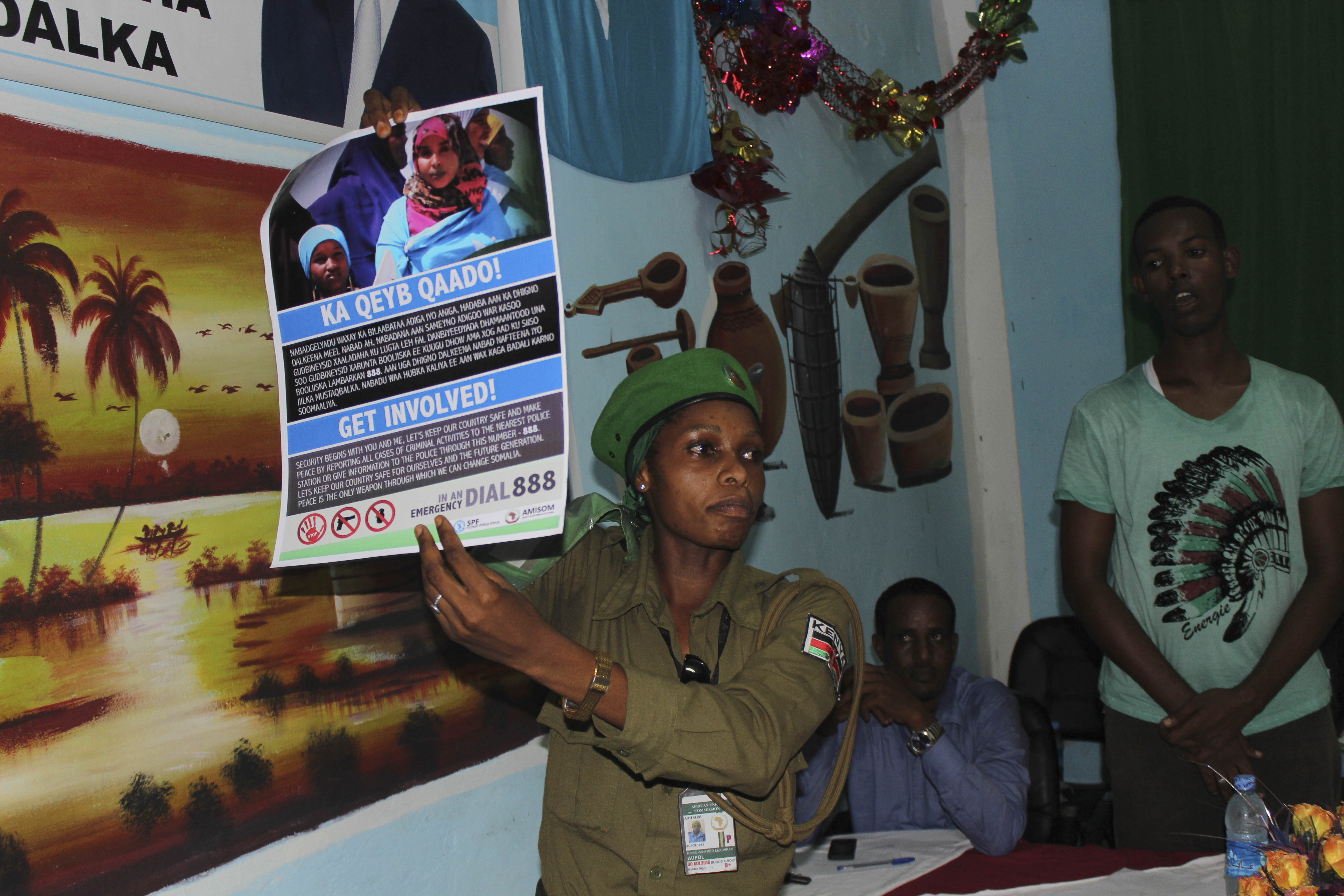 An AMISOM Police officer addresses residents of Hodan district during a meeting on community policing at Hodan district offices. The meeting was organised by AMISOM Police component on 10th May, 2015. AMISOM Photo / Raymond Baguma